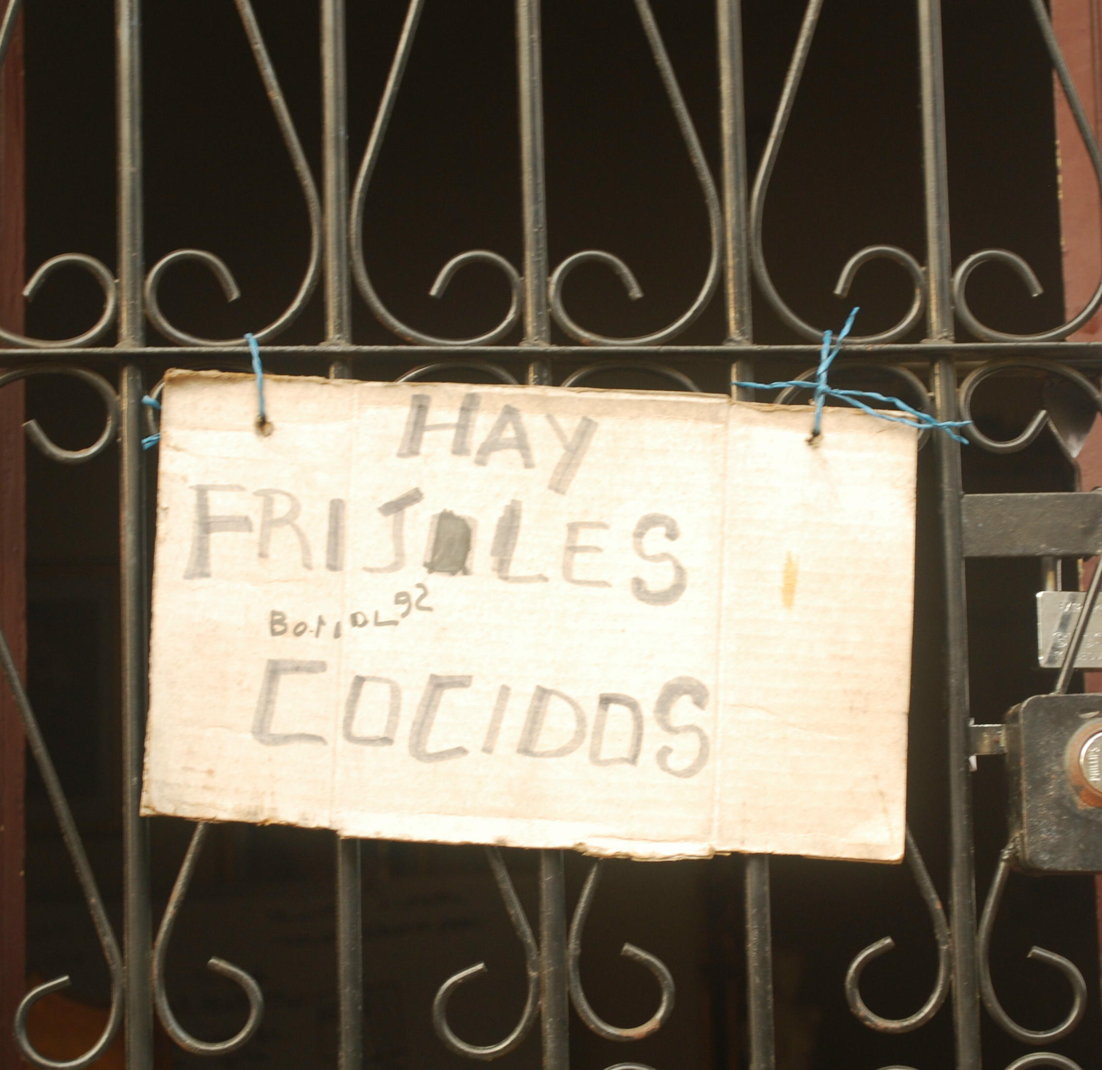 "Hay frijoles cocidos" - There are cooked beans (for sale).